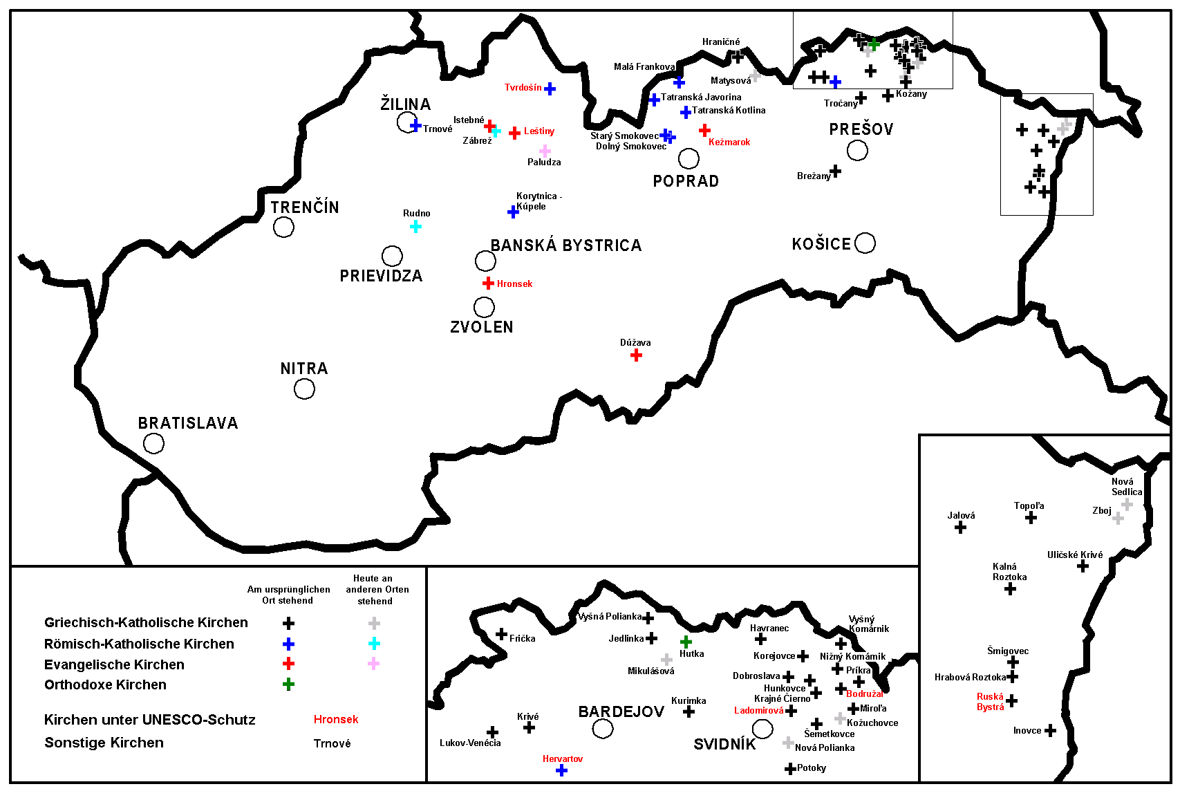 Map of wooden churches in Slovakia